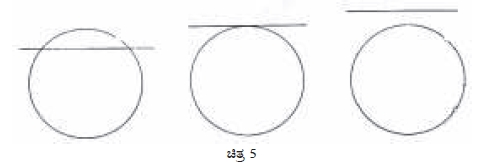 diagrams